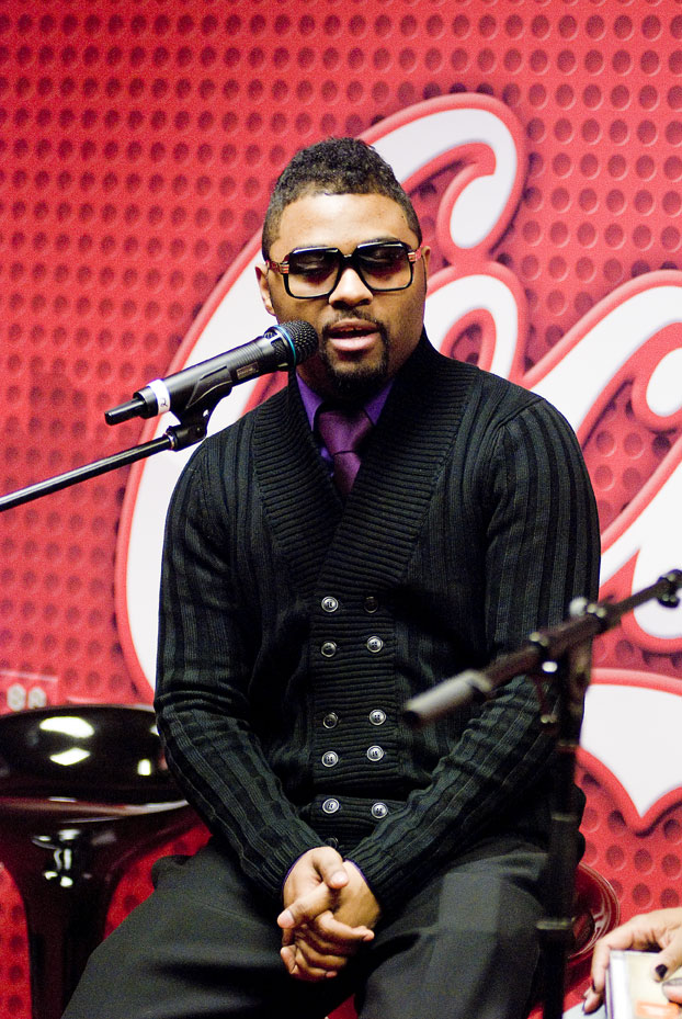 Musiq Soulchild at the Coca Cola Lounge at Chicago's Radio Station WGCI